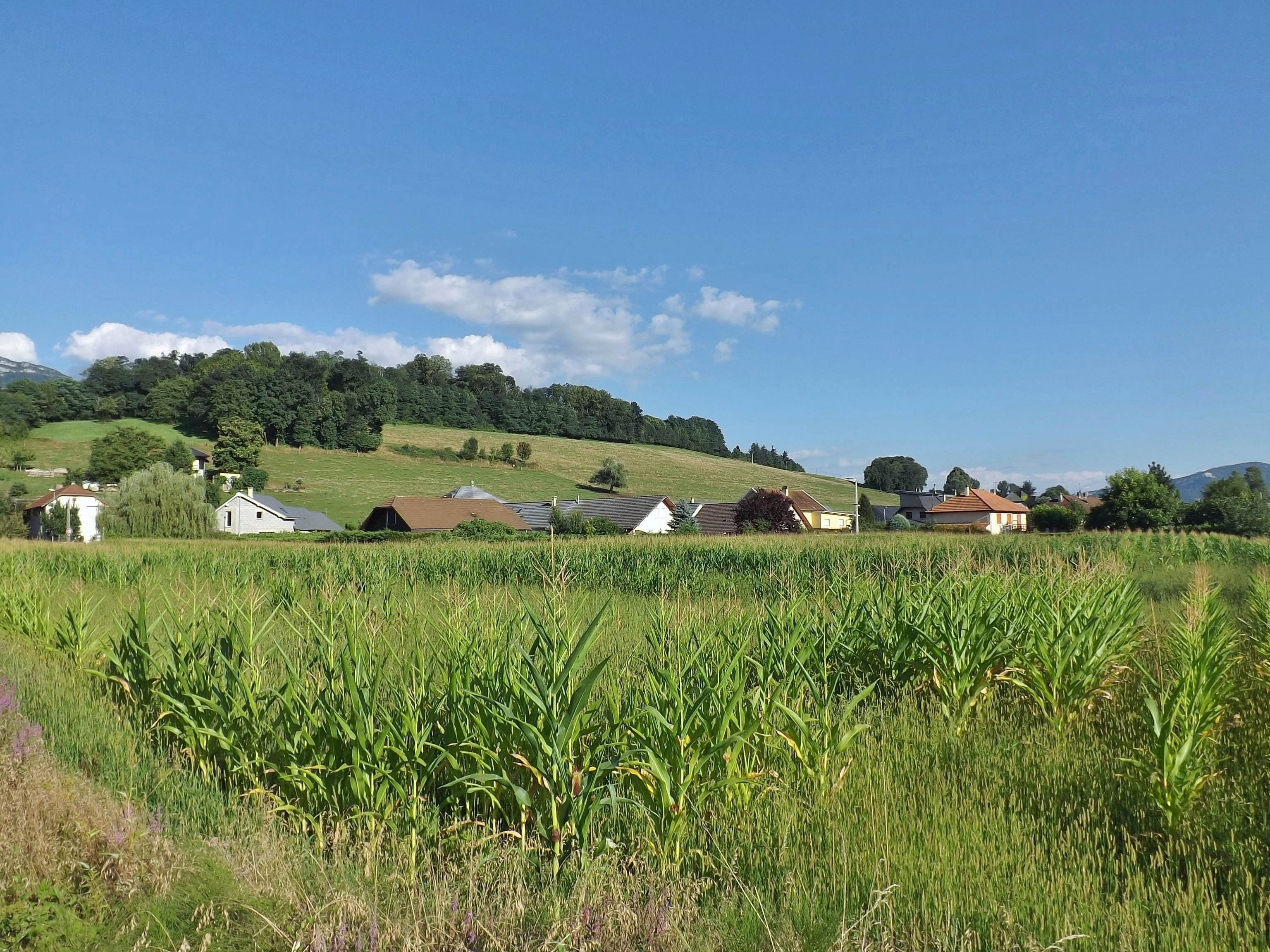 Sight of houses and fields in the northern surroundings of the city of Chambéry in Savoie, France.